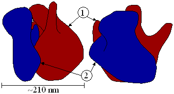 Assembly of ribosome